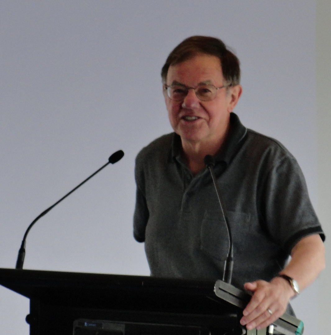 Peter Brain speaking at the Presbyterian Church of Victoria's Ministry Family Camp, Phillip Island, 2011.